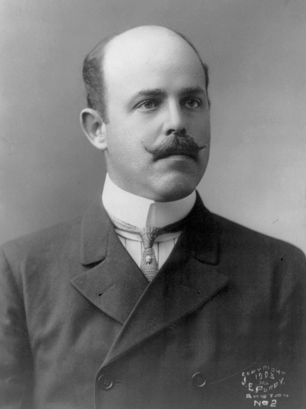 Nicholas Longworth, head-and-shoulders portrait, facing slightly right